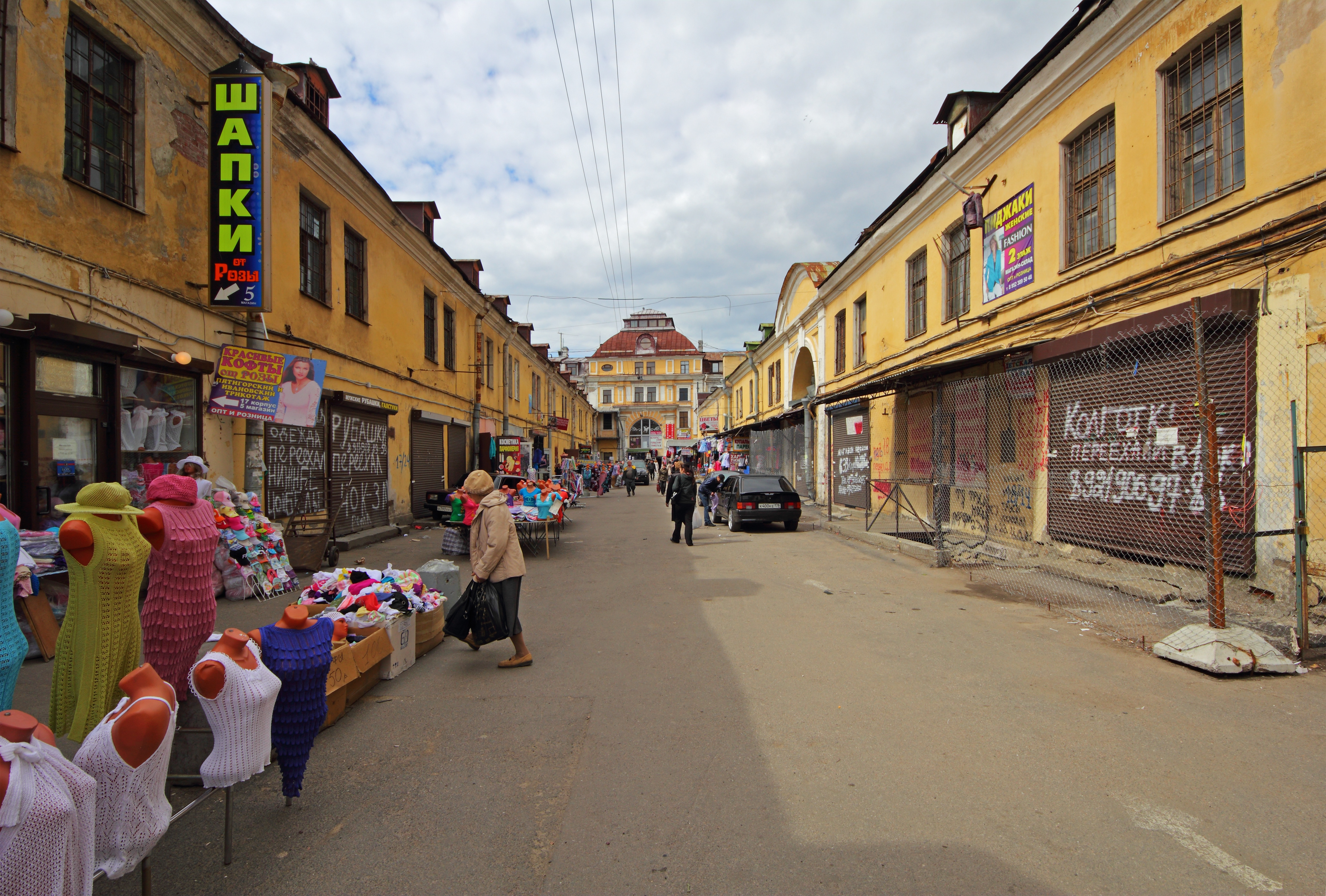 Saint Petersburg, Russia. Some buildings of the Apraksin Dvor market.